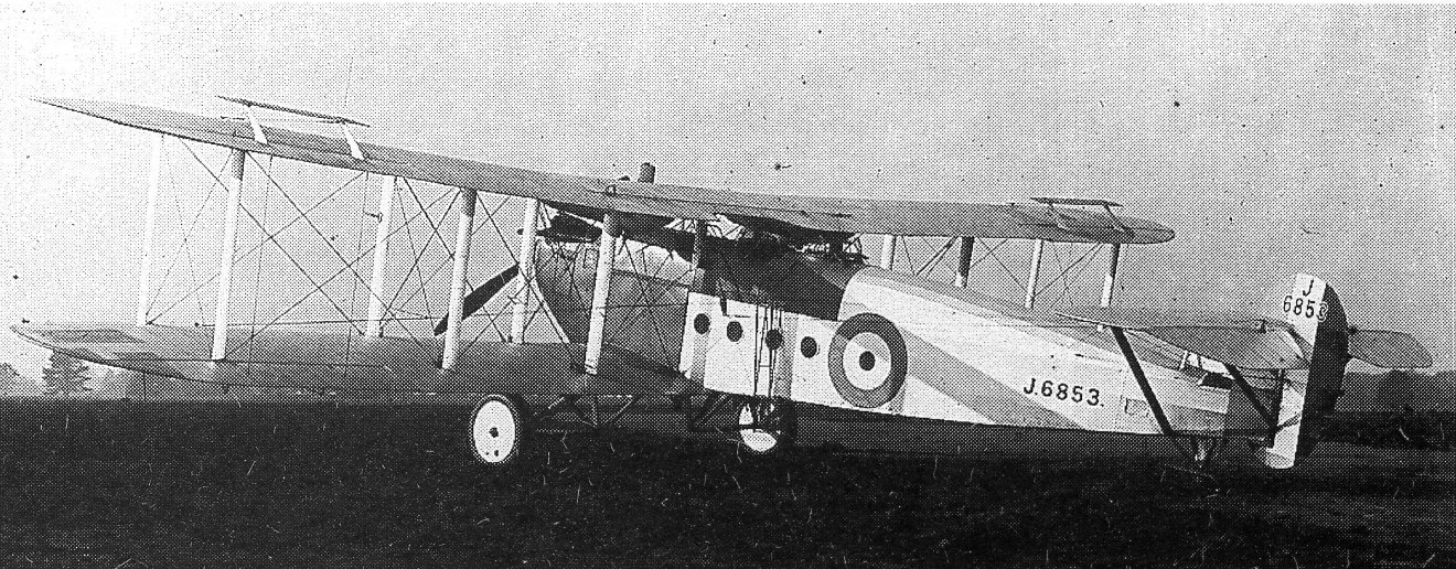 The second prototype Aldershot J6853 in the autumn of 1922, with extended rear fuselage, empennage changes etc